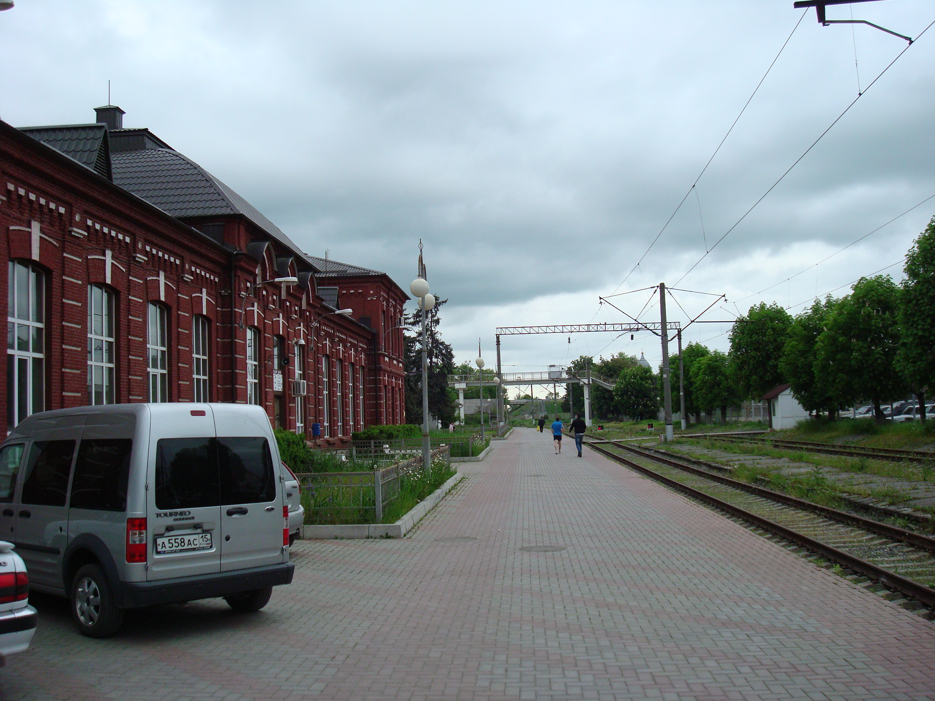 Train station in Beslan, Northern Ossetia, Russia